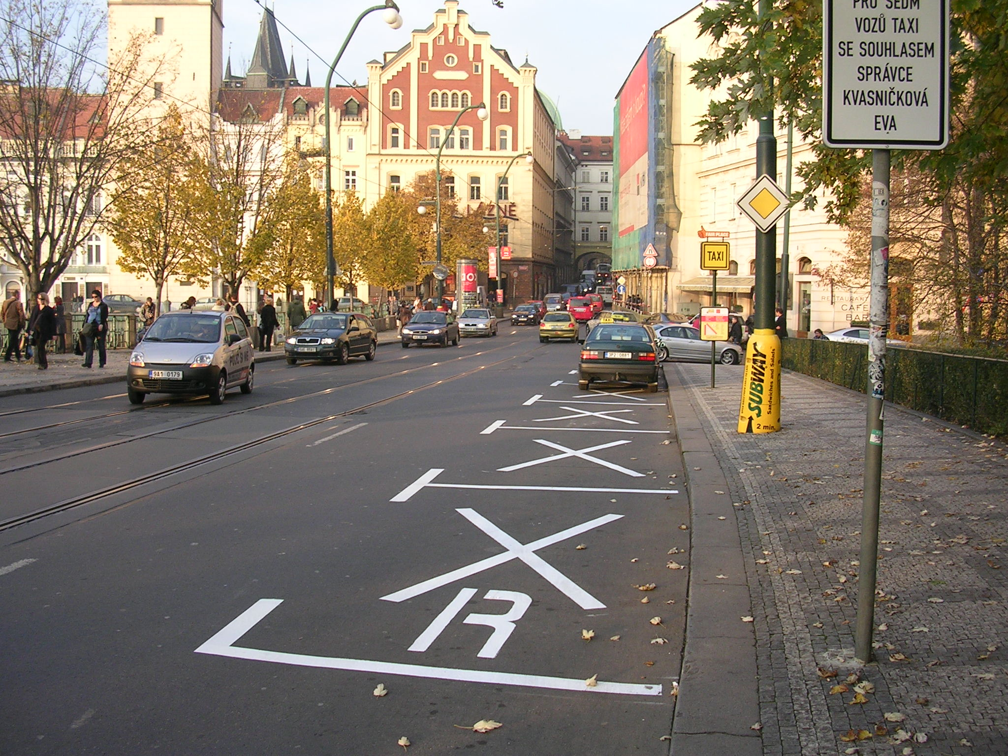 Old Town, Prague.